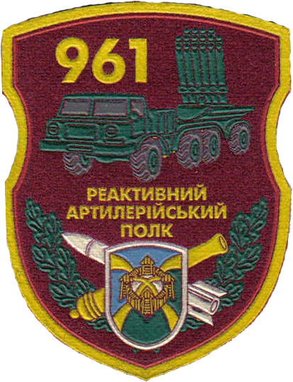 961th Artillery Regiment patch, Ukraine